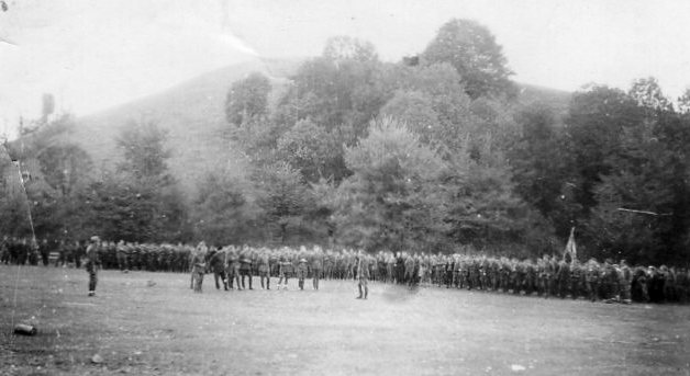 Second Macedonian Assault Brigade, WW II This media file is produced by Wikipedian in Residence in Category:Wikipedian in Residence at DARM in 2016.